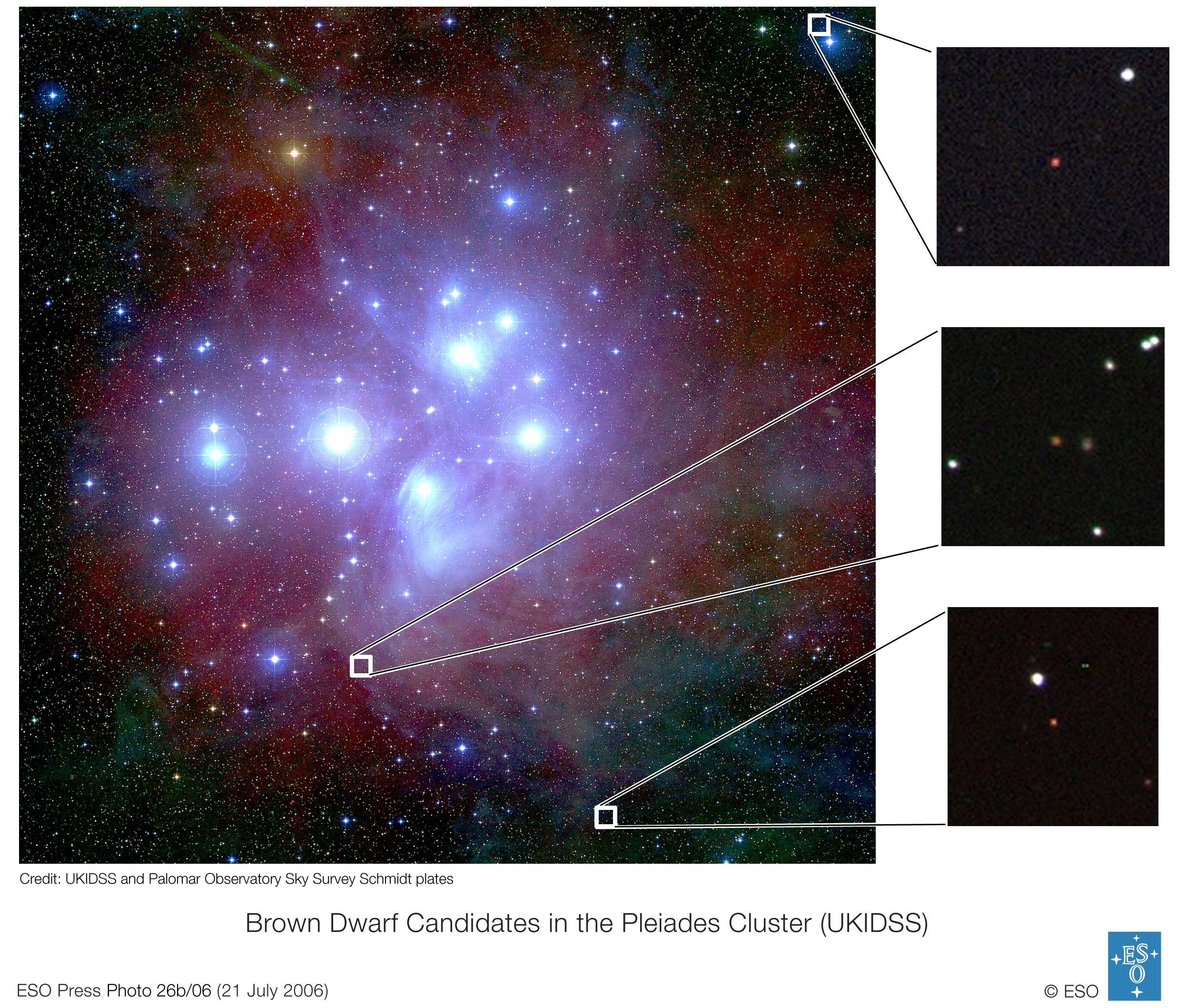 The large blue image shows an optical picture of the Pleiades star cluster, which lies around 400 light-years from the Sun and is thought to be typical of the regions where stars form in our Galaxy. The three close-up images show three objects that may be brown dwarfs that have been found in UKIDSS data. In each case, the colour scheme indicates that the stars are much cooler (i.e. redder) than other stars that happen to lie in the line of sight. If further study confirms that these objects are indeed members of the Pleiades star cluster, then they will likely have masses around 4% of the Sun, or around 40 times the mass of the planet Jupiter.